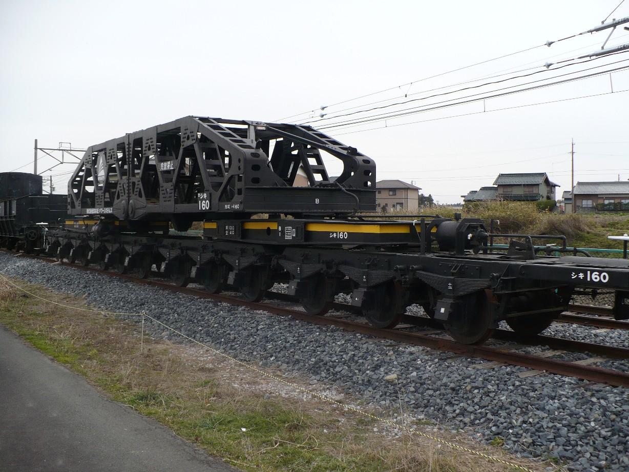 JNR "Shiki160" type heavy capacity flatcar preserved in Freight Railway Museum, Inabe city Mie prefecture Japan